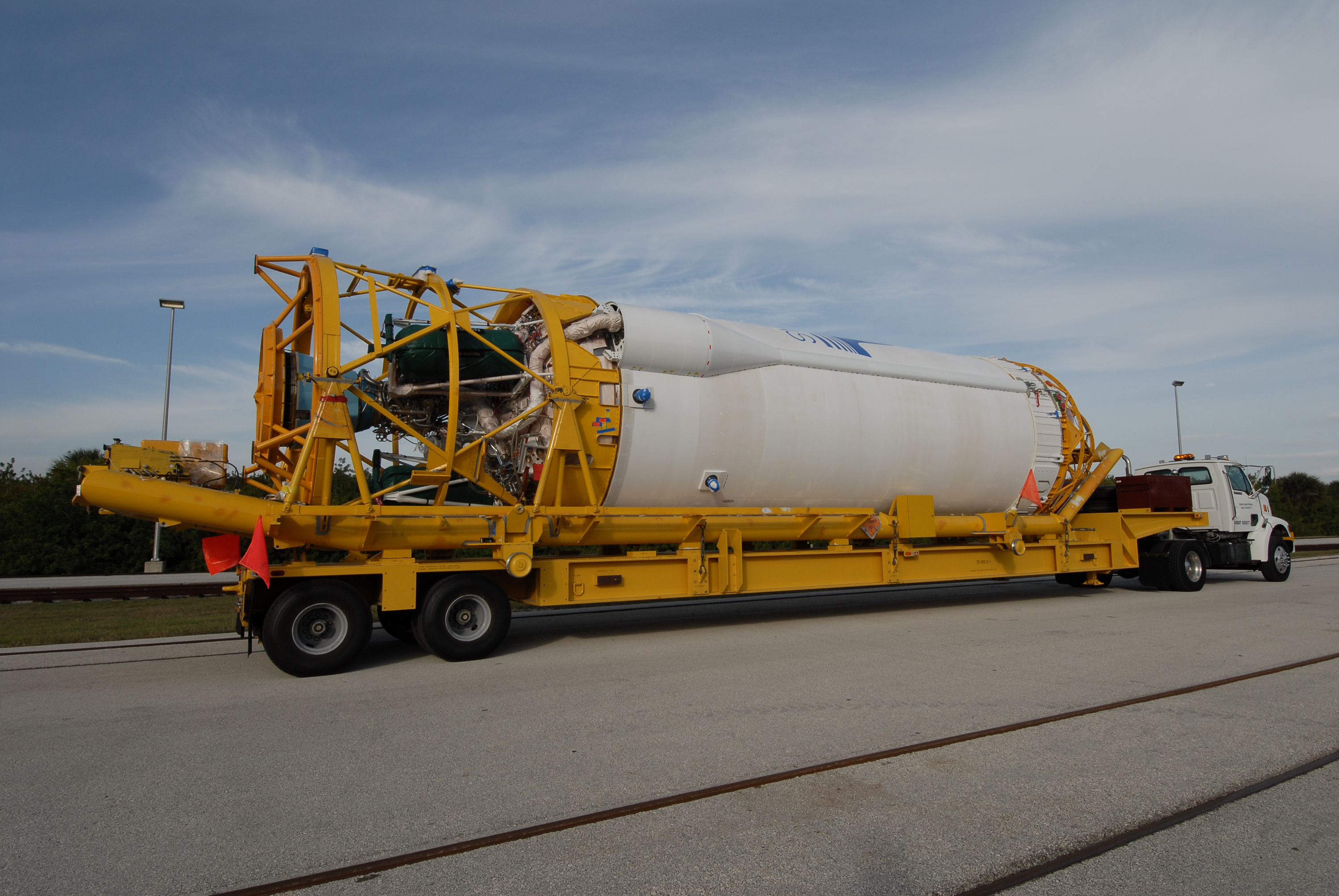 CAPE CANAVERAL, Fla. – The Centaur upper stage for the Atlas V rocket scheduled to launch NASA's Solar Dynamics Observatory, or SDO, begins its move from the Atlas Spaceflight Operations Center to Pad 41 on Cape Canaveral Air Force Station in Florida. SDO is the first space weather research network mission in NASA's Living With a Star Program. The spacecraft's long-term measurements will give solar scientists in-depth information about changes in the sun's magnetic field and insight into how they affect Earth. Liftoff on the United Launch Alliance Atlas V is scheduled for 10:53 a.m. EST on Feb. 3, 2010. For information on SDO, visit